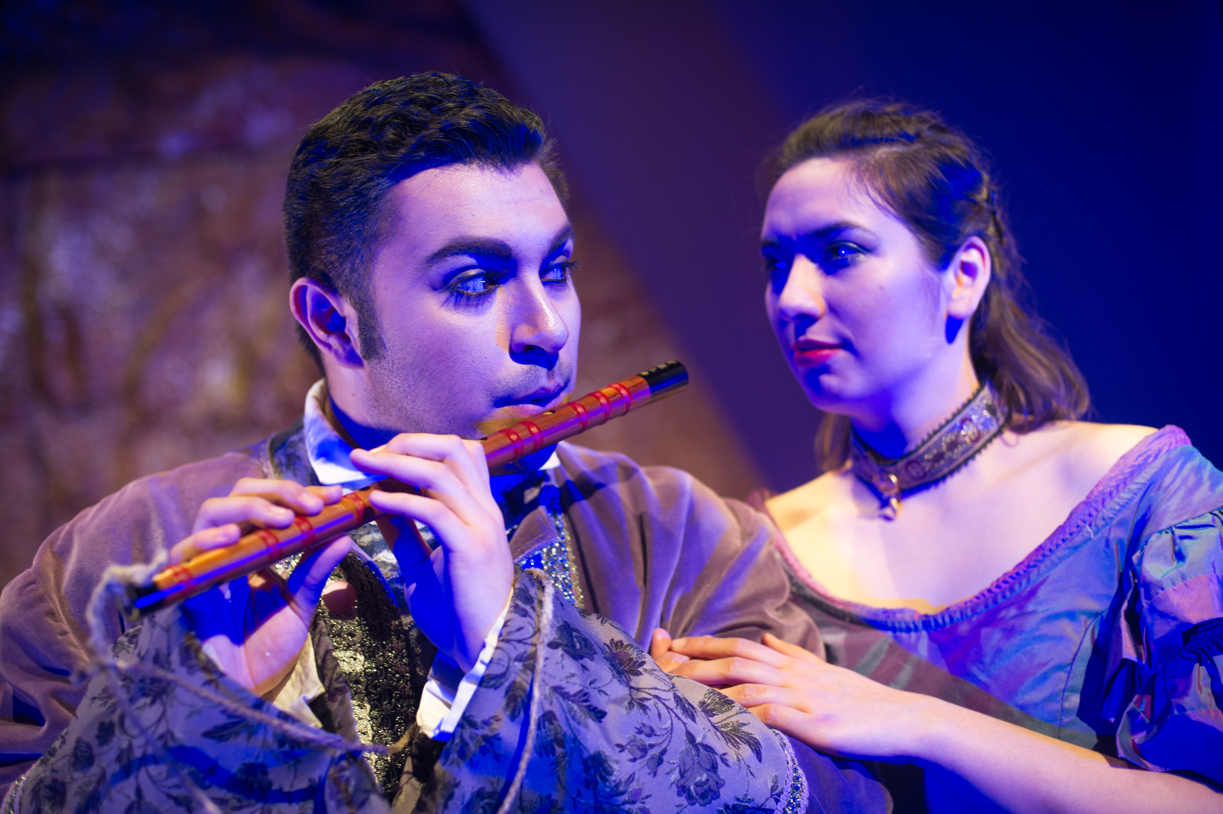 15031-Magic Flute Production-0500 Magic Flute production at Texas A&M University–Commerce